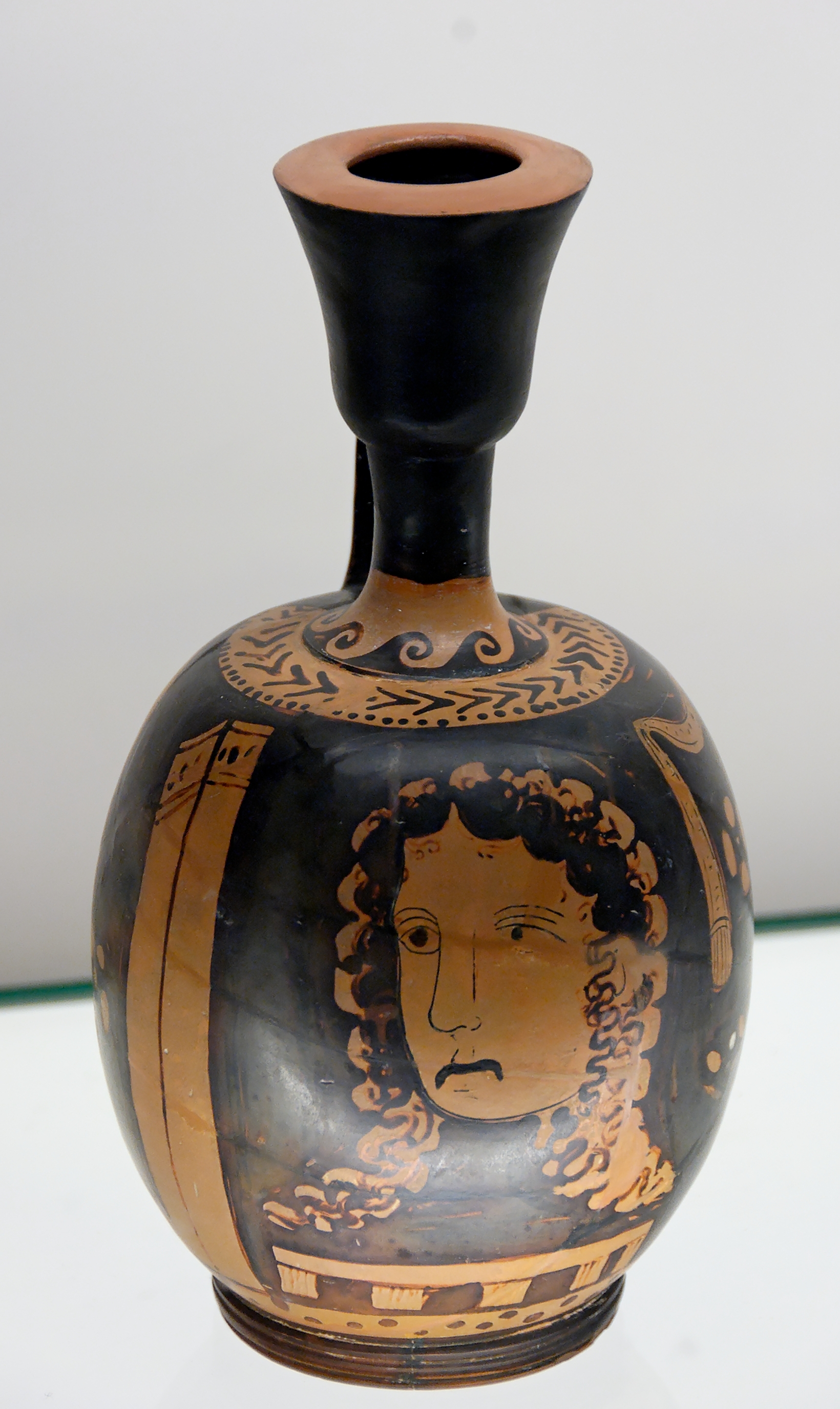 Tragic mask and a stage. Lucanian red-figured squat lekythos, ca. 350–330 BC.